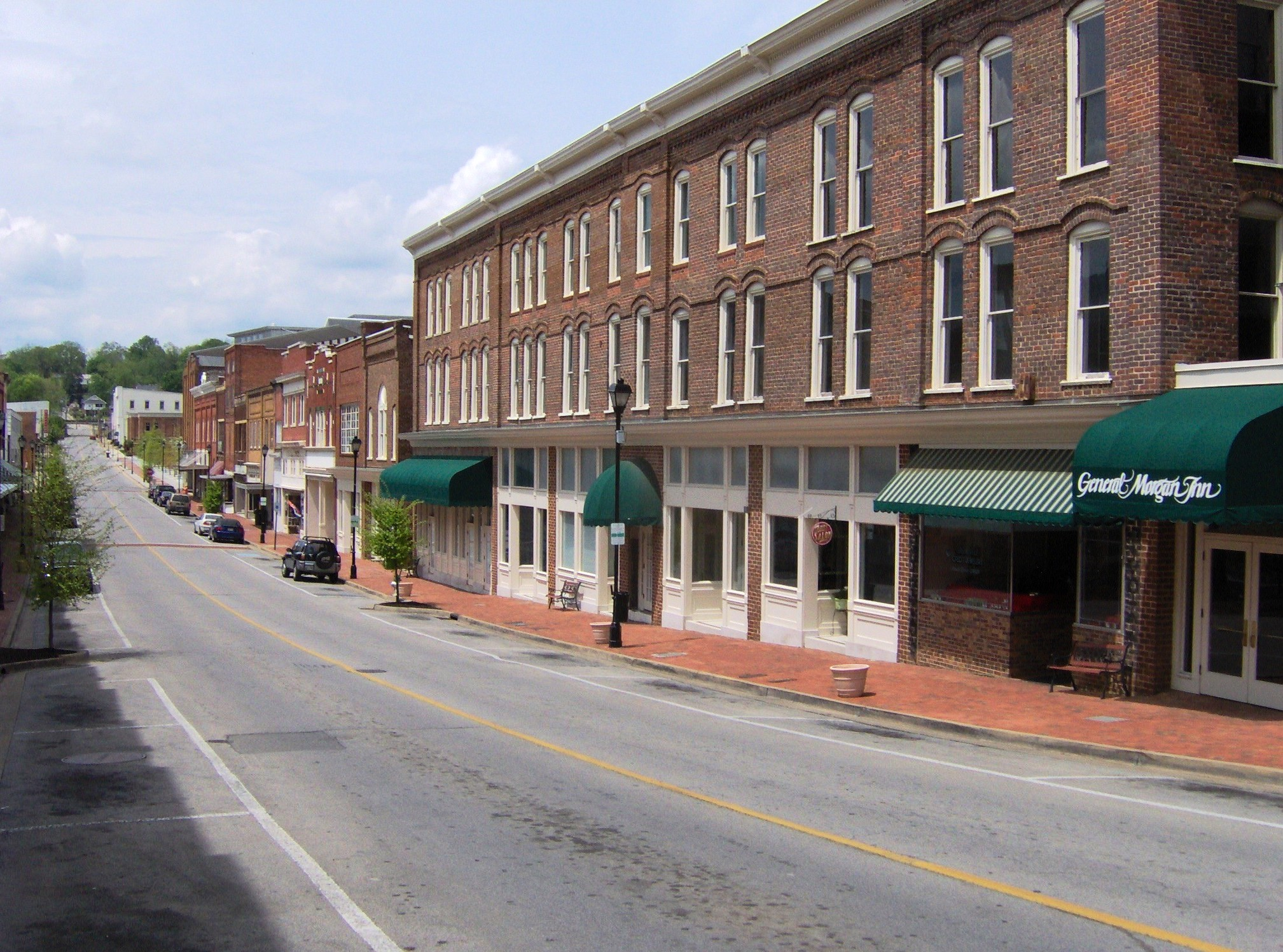 West Depot Street in Greeneville, Tennessee, in the southeastern United States. Portions of Depot Street are part of the Greeneville Historic District, which was added to the U.S. National Register of Historic Places in 1974. West Depot Street is not technically part of the town's Historic Zone.